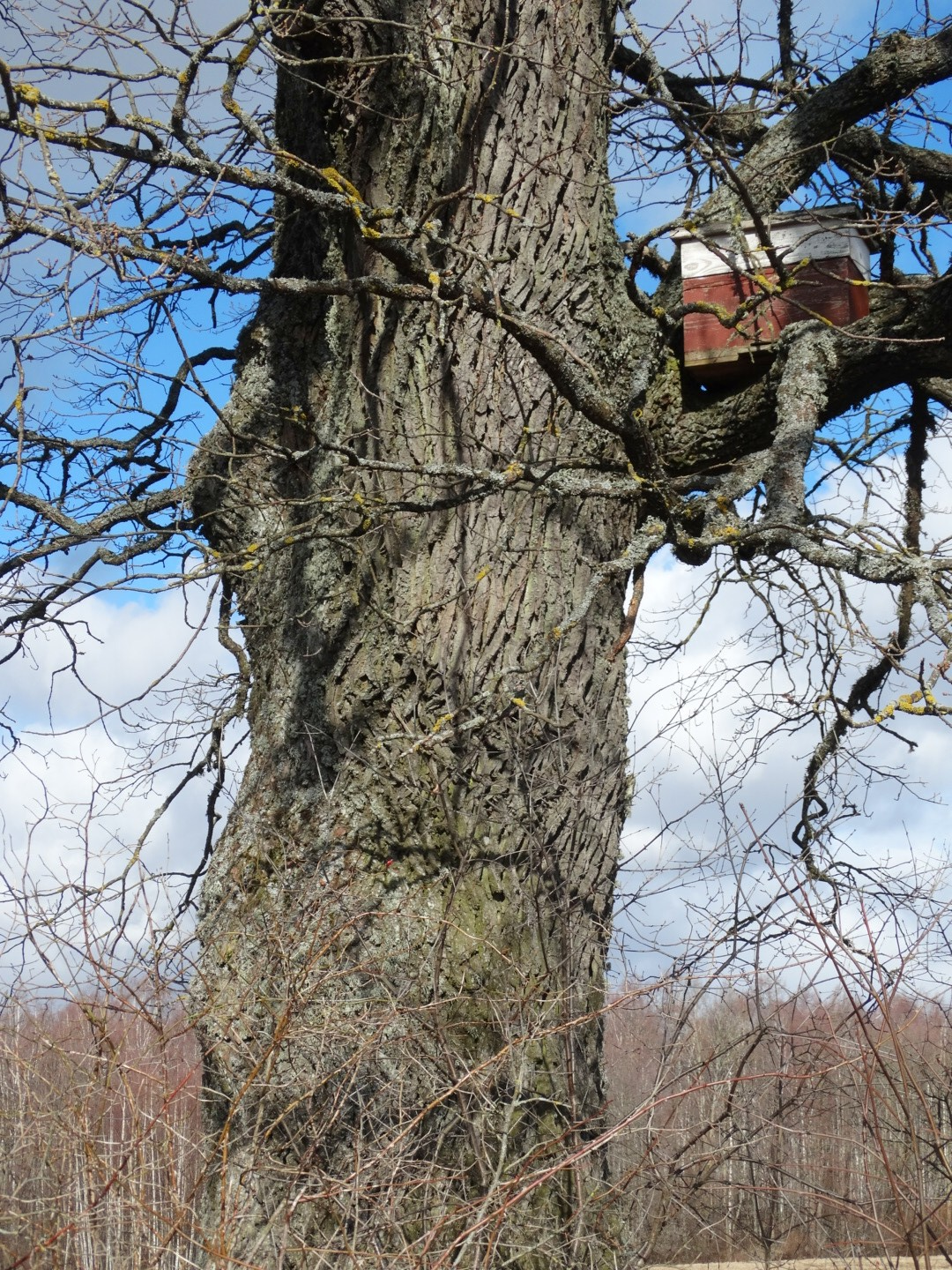 Oak (4th) in Mukuliai, Zarasai district, Lithuania